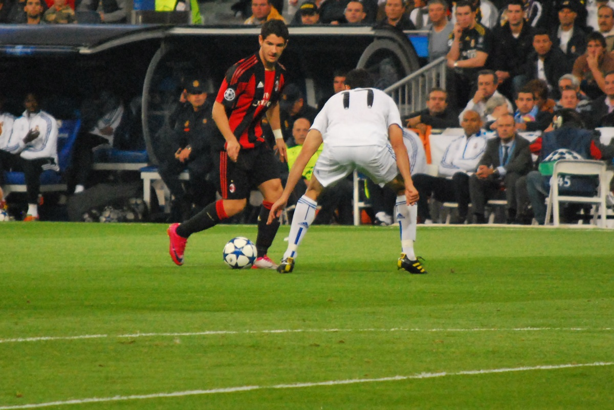 Alexandre Pato vs Real Madrid at Bernabéu